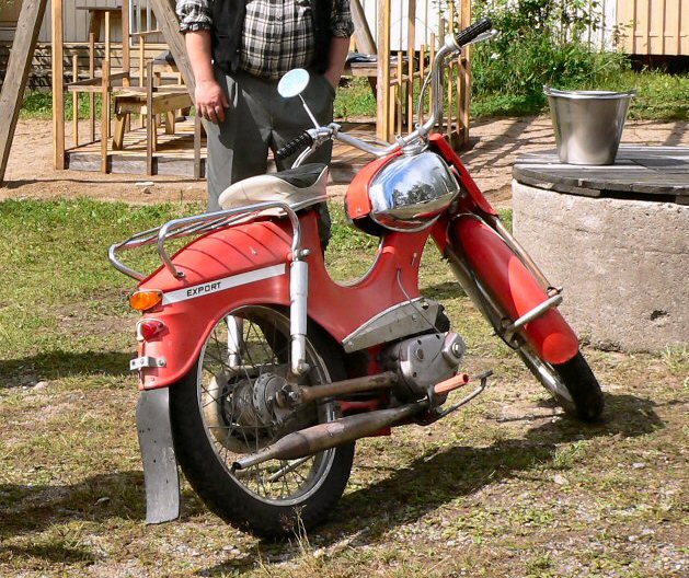 Solifer Export-moped